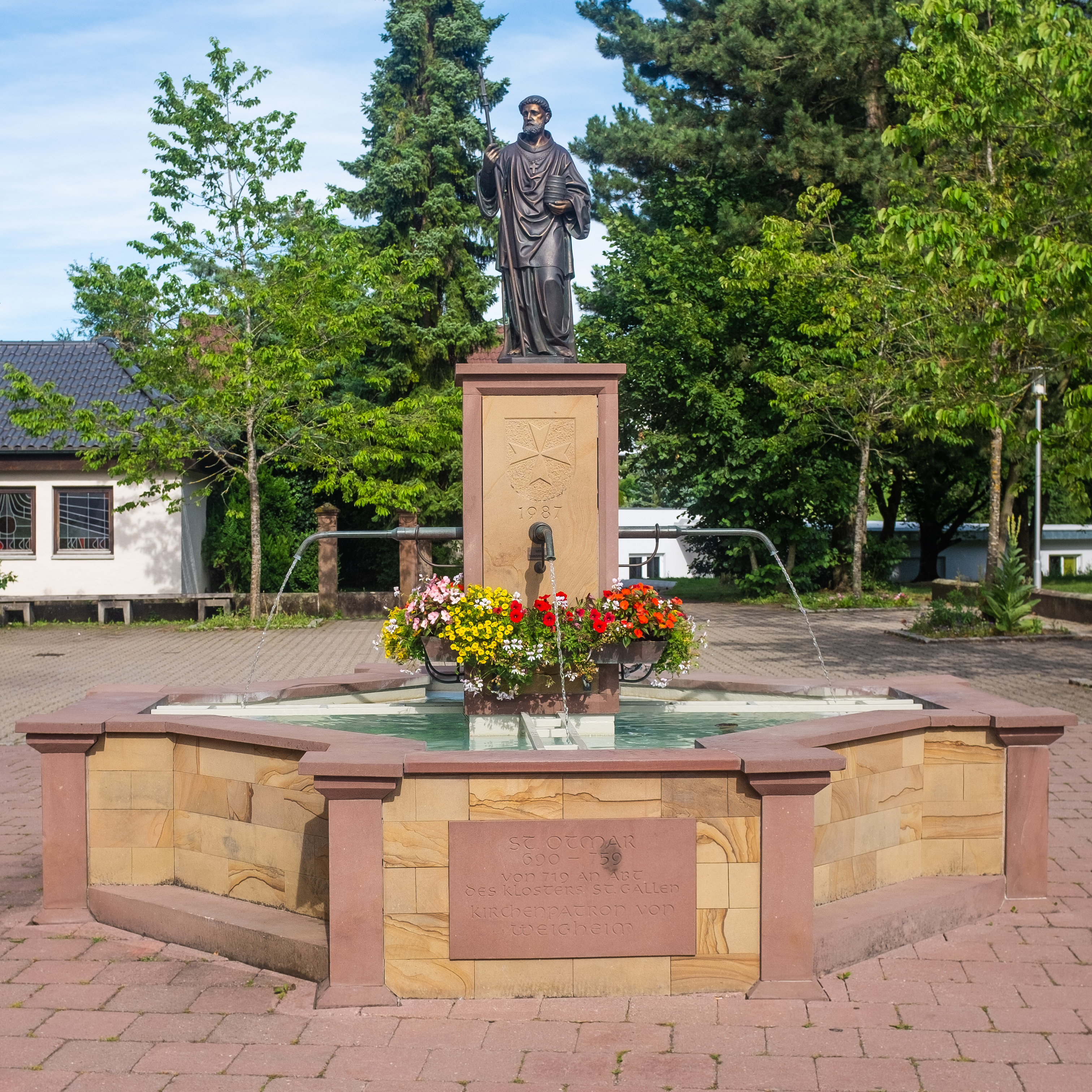 Fountain Otmarbrunnen, VS-Weigheim, district Schwarzwald-Baar-Kreis, Baden-Württemberg, Germany